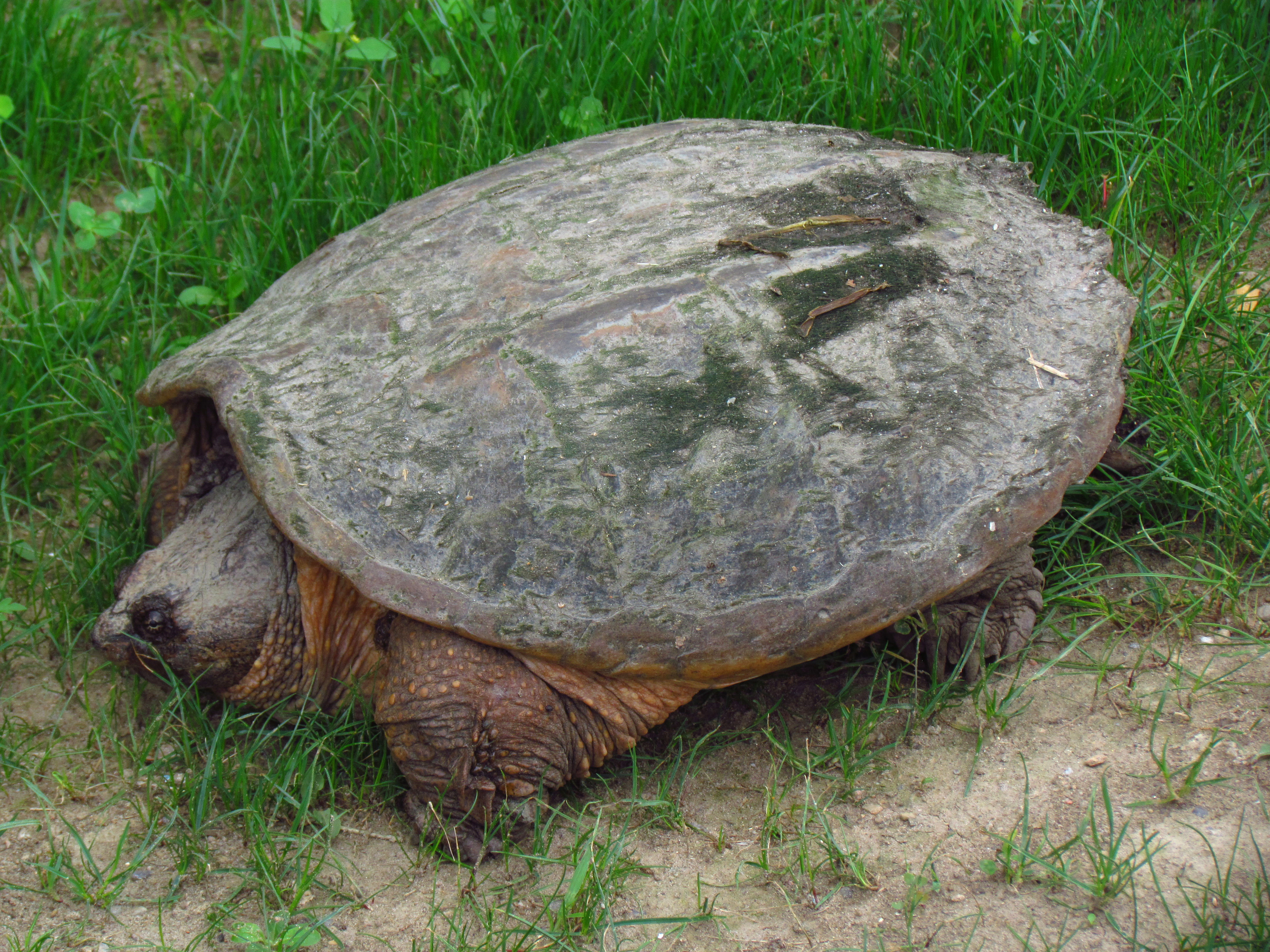 Common Snapping Turtle (Chelydra serpentina), near Rideau River, Ottawa, Ontario, Canada